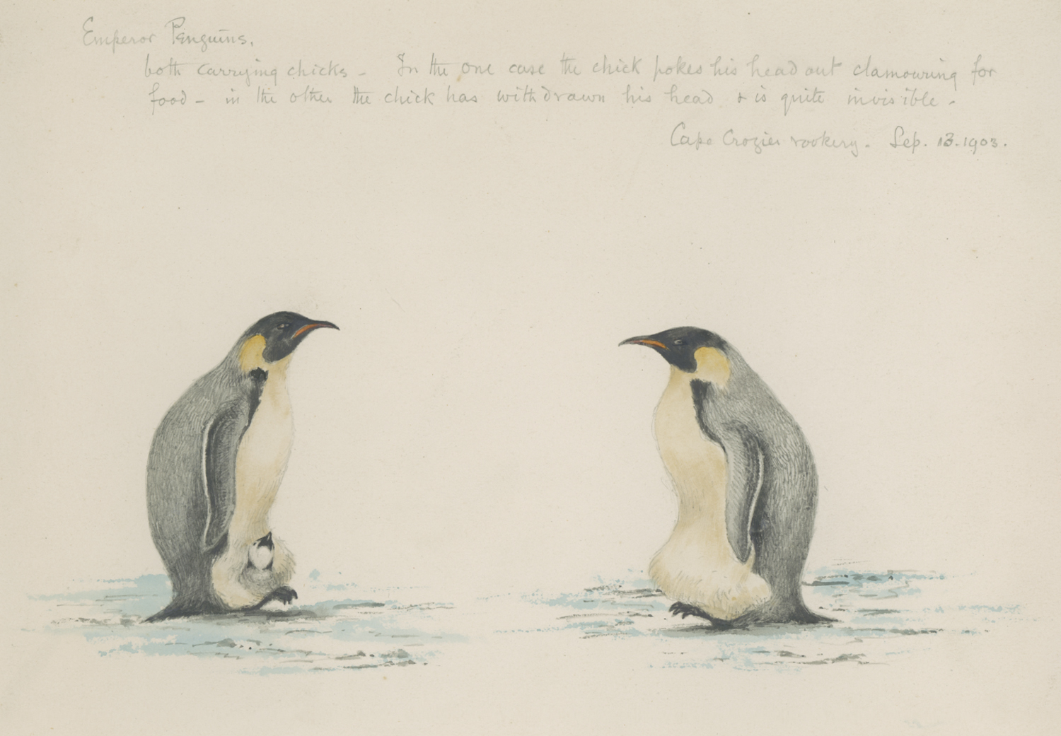 Drawing of two emperor pinguins, both carrying chicks (Cape Crozier rookery) by Dr. Edward Wilson. 13 Sept. 1903